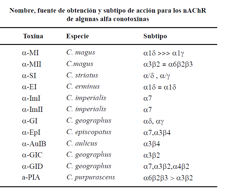 Tabla Conotoxina